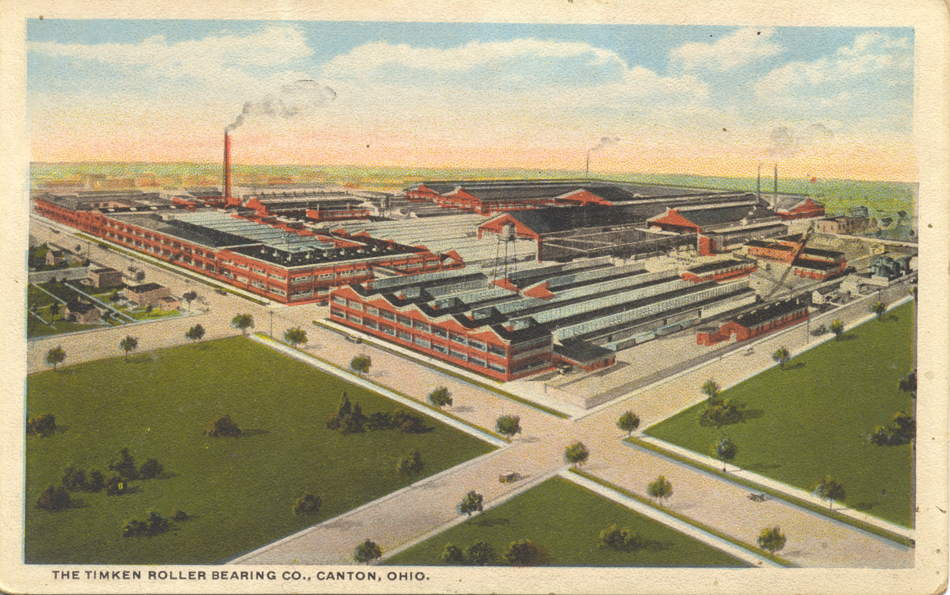 Persistent URL: Subject: Industrial facilities; Machinery; Machinery industry; Ohio--Canton; miami digital collections; bowden postcard collection